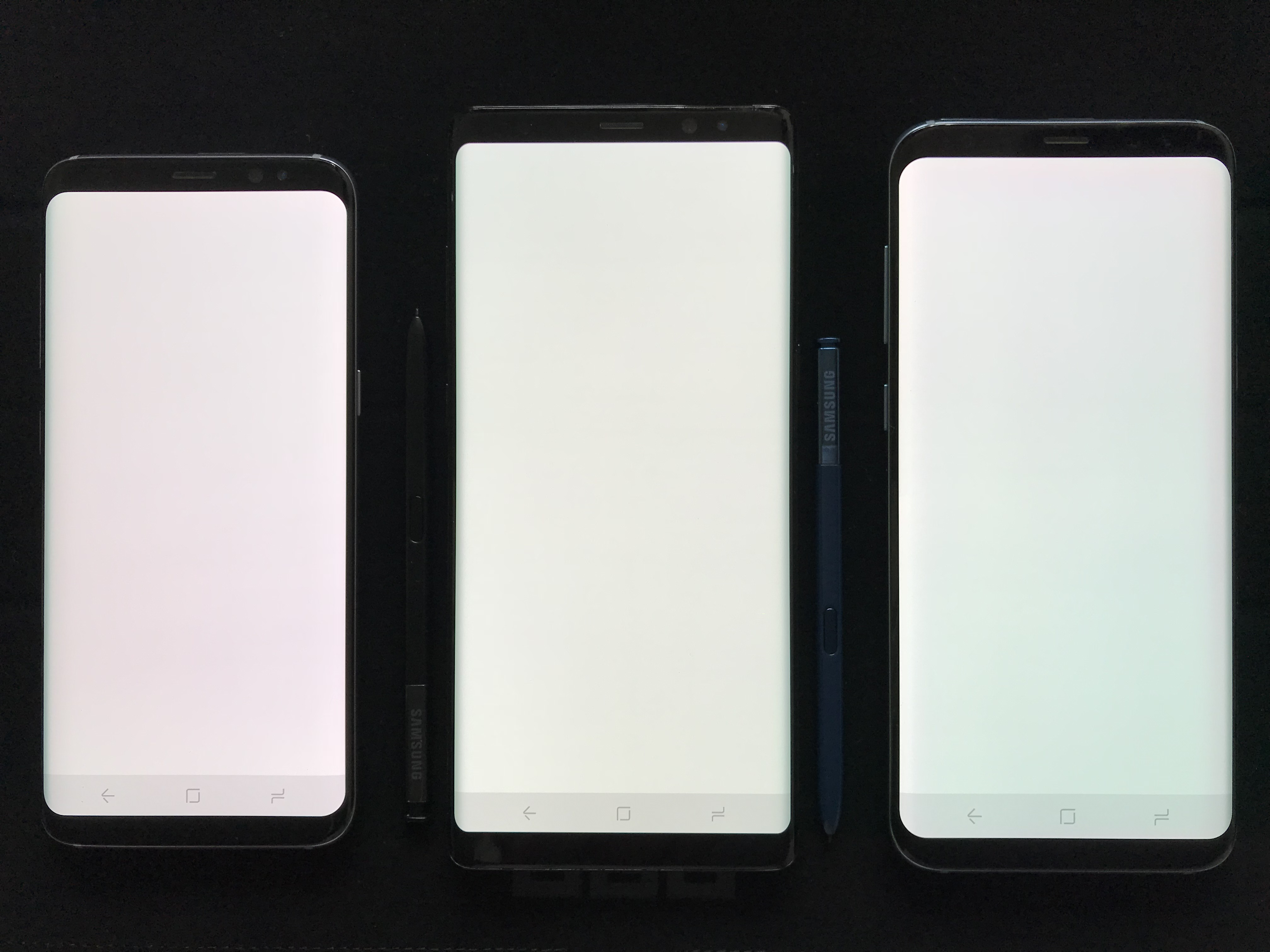 Android Smartphones (screen on)